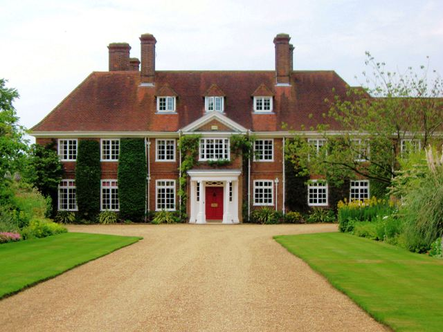 Norcott Hall, Northchurch. I was very surprised to see this 18th century Georgian House as I was not expecting anything so grand at Norcott Hill Farm. It looked too good - and there was no sign of any avenue of 200 year old trees associated with the building. When I got home my doubts were confirmed. There was no mention of it in any of the books in my Hertfordshire history library - and it was definitely not there on large scale maps of 1884 . In fact the first reference I found in my own library was that in the mid-1990s the name "Norcott Hall" appears on ordnance survey maps. It is obviously a 20th century build and a Google search, plus a search of pre-war Kelly's Directories, suggests it was probably built by Thomas Geoffrey Blackwell (1884-1943), who took up residence at Norcott Hill in or shortly before 1937, and died there in 1943. He was deputy chairman of Cross & Blackwell. More recently it was the home of Gordon D Claridge, whose company ran the Port of Lowestoft, and who died in about 1996. He also ran the farm (through a company with his name) and it would appear that the farm buildings were converted to housing shortly after his death. See also 1372909. See 'Genealogy in Hertfordshire' web site at for further information.